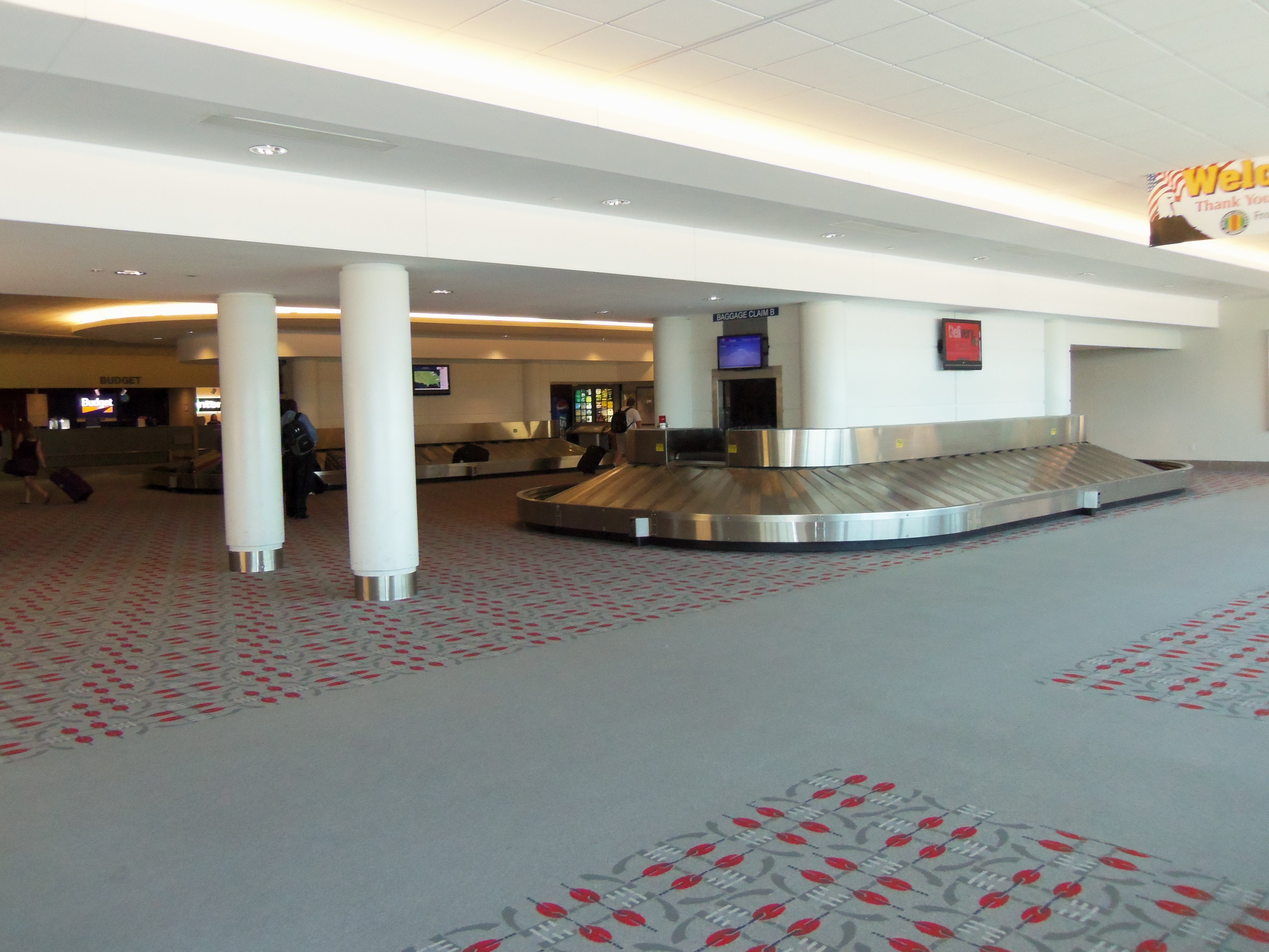 Baggage Claim in the Quad City International Airport, Moline, Illinois